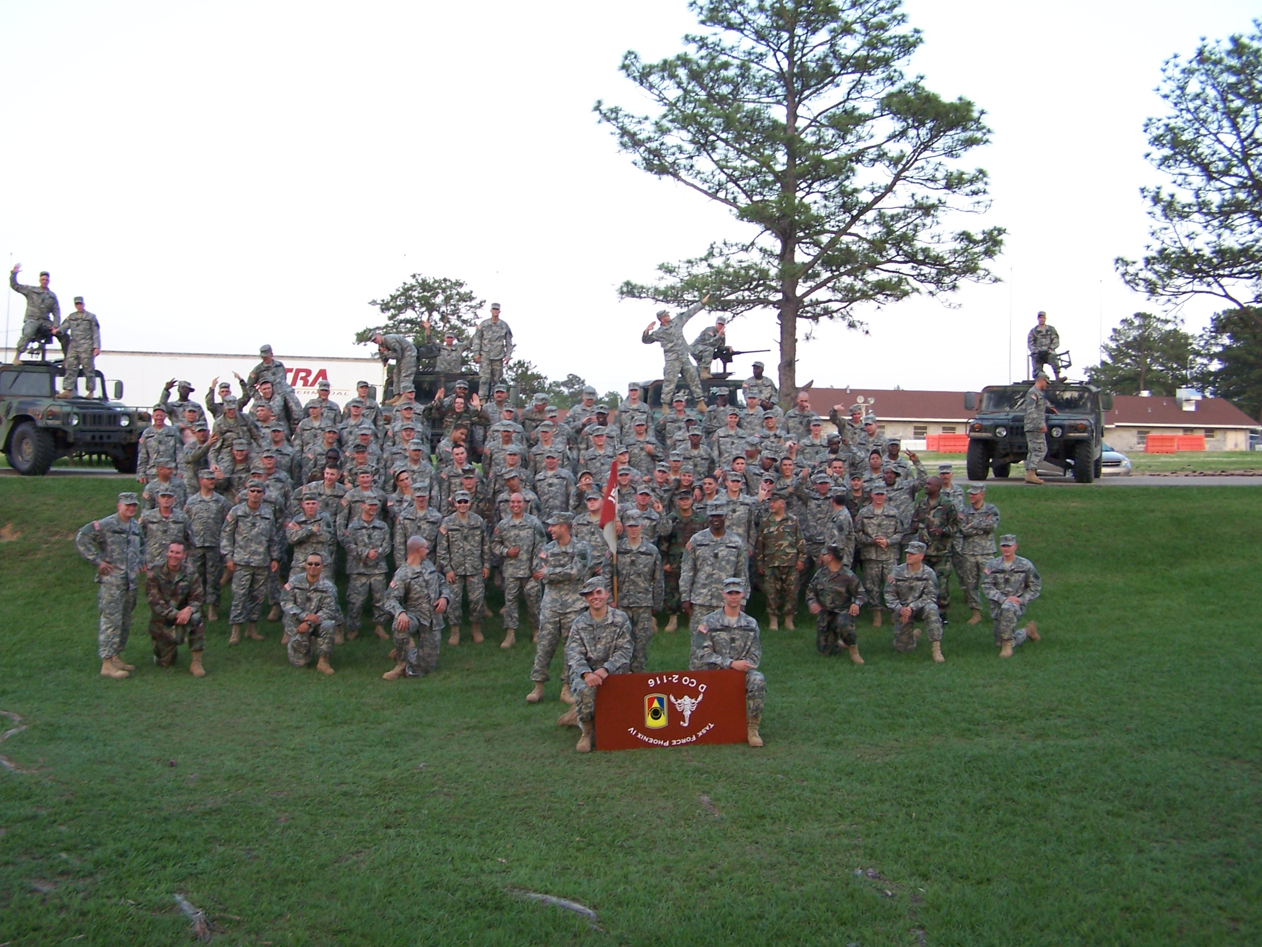 E Troop, 153rd Cavalry circa 2006, around their deployment to Afghanistan.